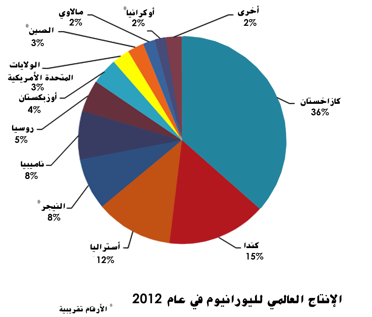 Production of uranium by country in 2012 pie chart, made with Microsoft Excel, information taken from World Uranium Mining Production, Publisher: World Nuclear Association